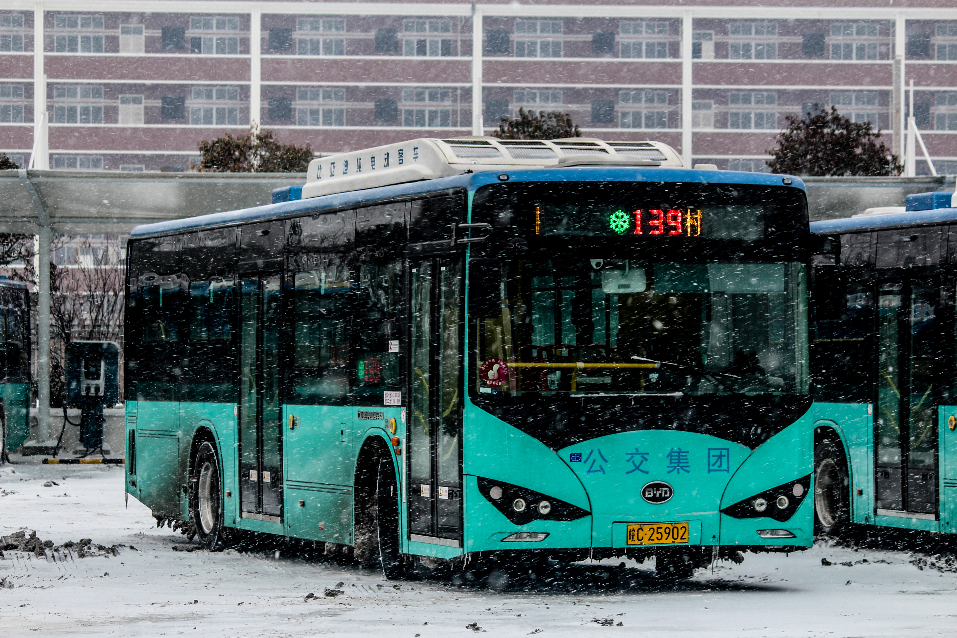 Bengbu Buses No.139